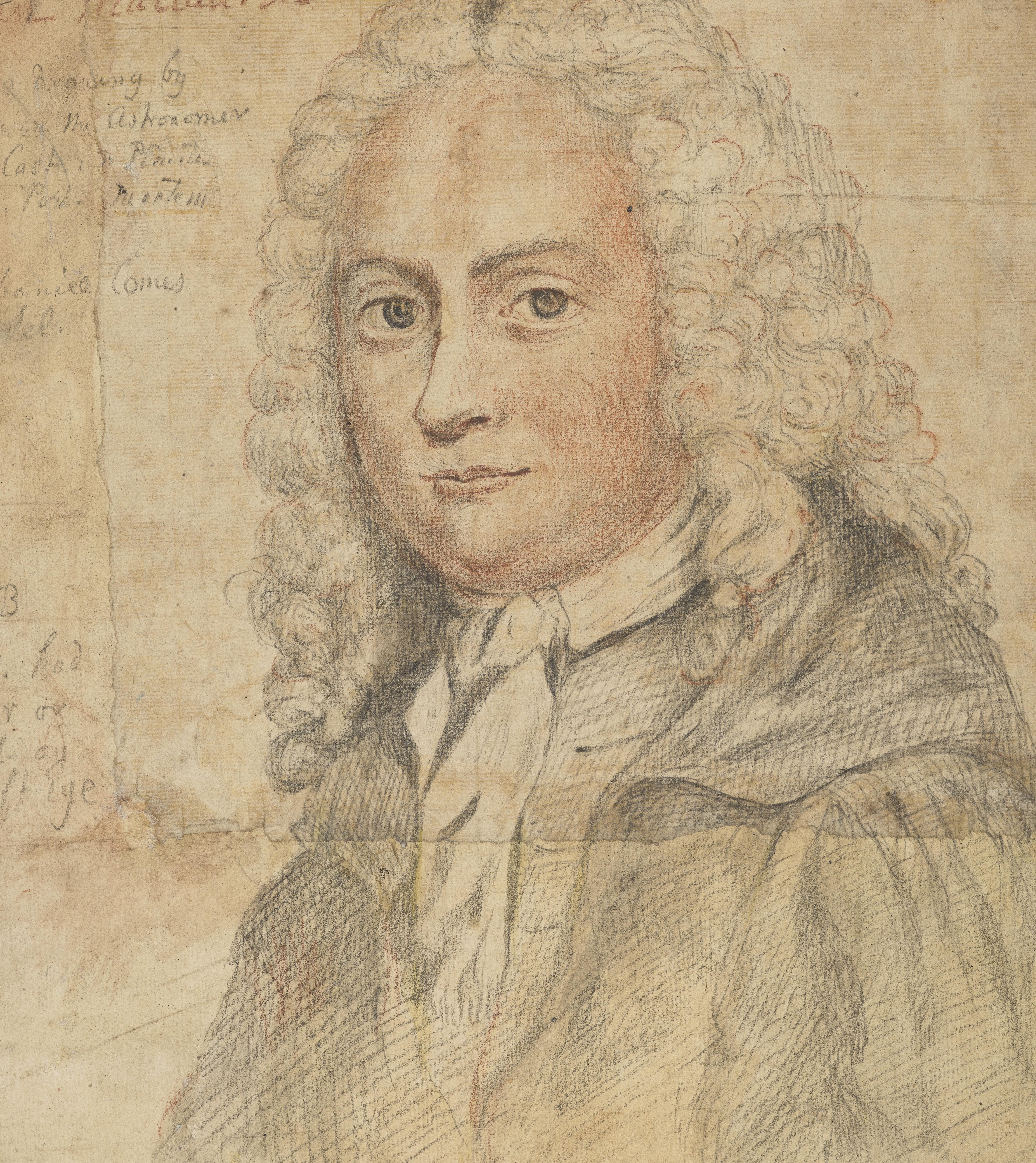 Portrait of Colin Maclaurin (1698–1746) DescriptionScottish-British mathematician and physicistDate of birth/death1 February 169814 June 1746Location of birth/deathScotlandEdinburghAuthority control : Q8755 VIAF: 61658346 ISNI: 0000 0000 8344 0896 LCCN: n82134386 GND: 117517747 SUDOC: 034606580 WorldCat